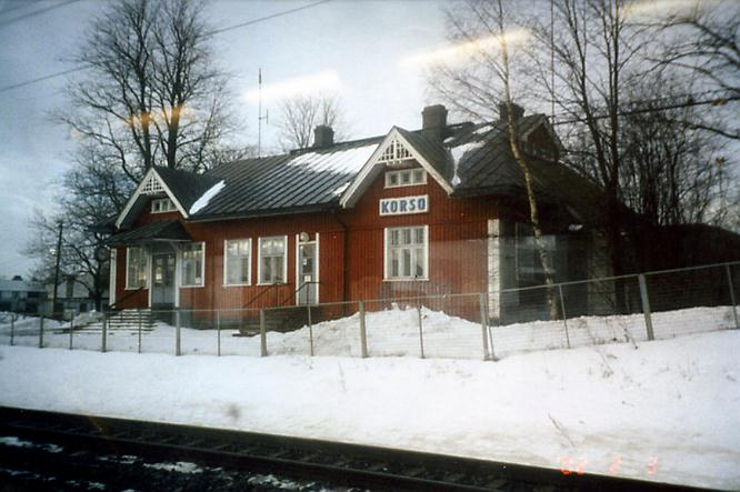 Old station of Korso in Vantaa, Finland